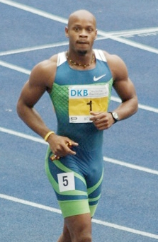 Asafa Powell at the 2006 ISTAF athletics meet